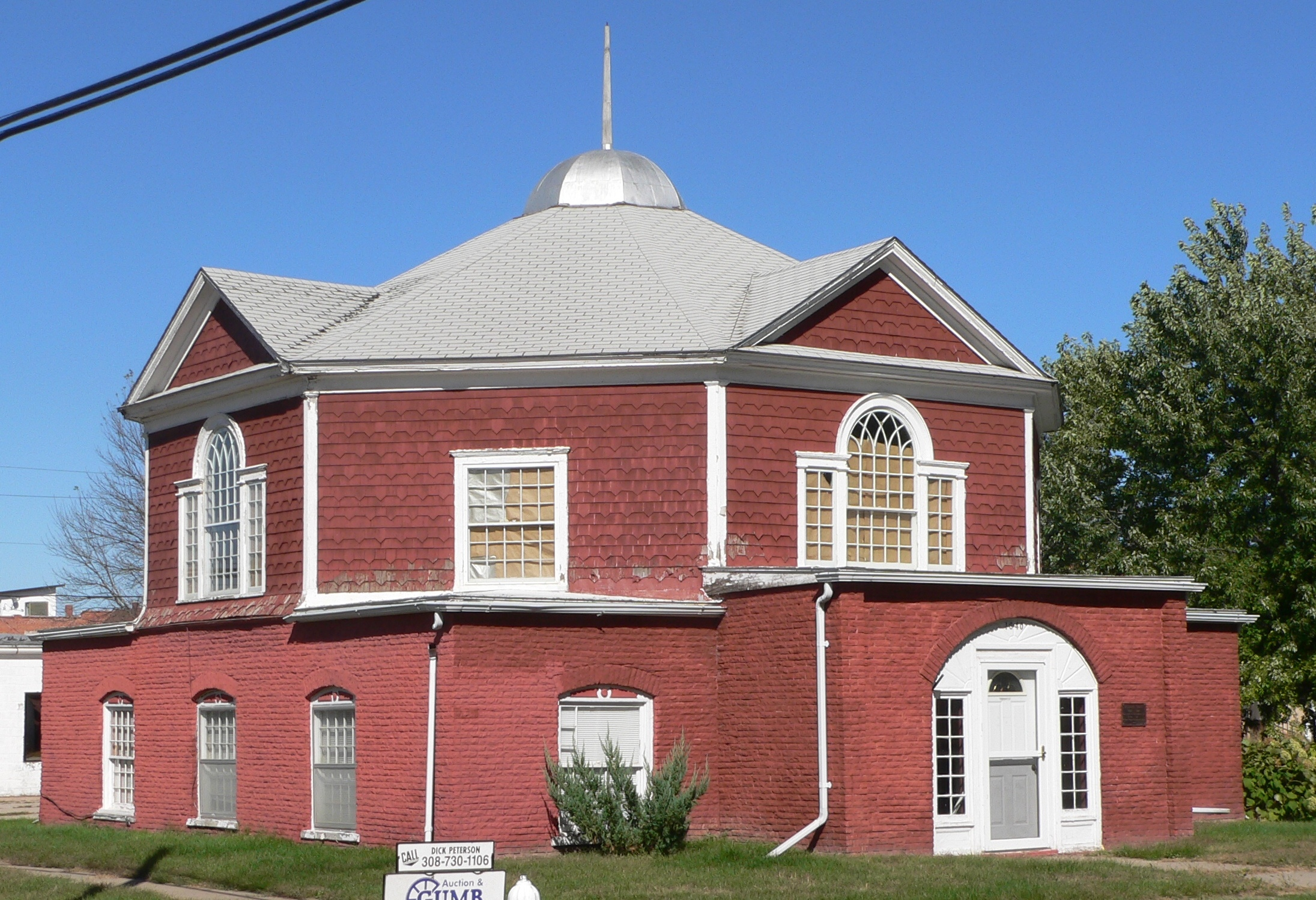 People's Unitarian Church, located at 1640 N Street in Ord, Nebraska; seen from the southwest. The building was constructed in 1901, and is listed in the National Register of Historic Places. It now appears to be a private residence.